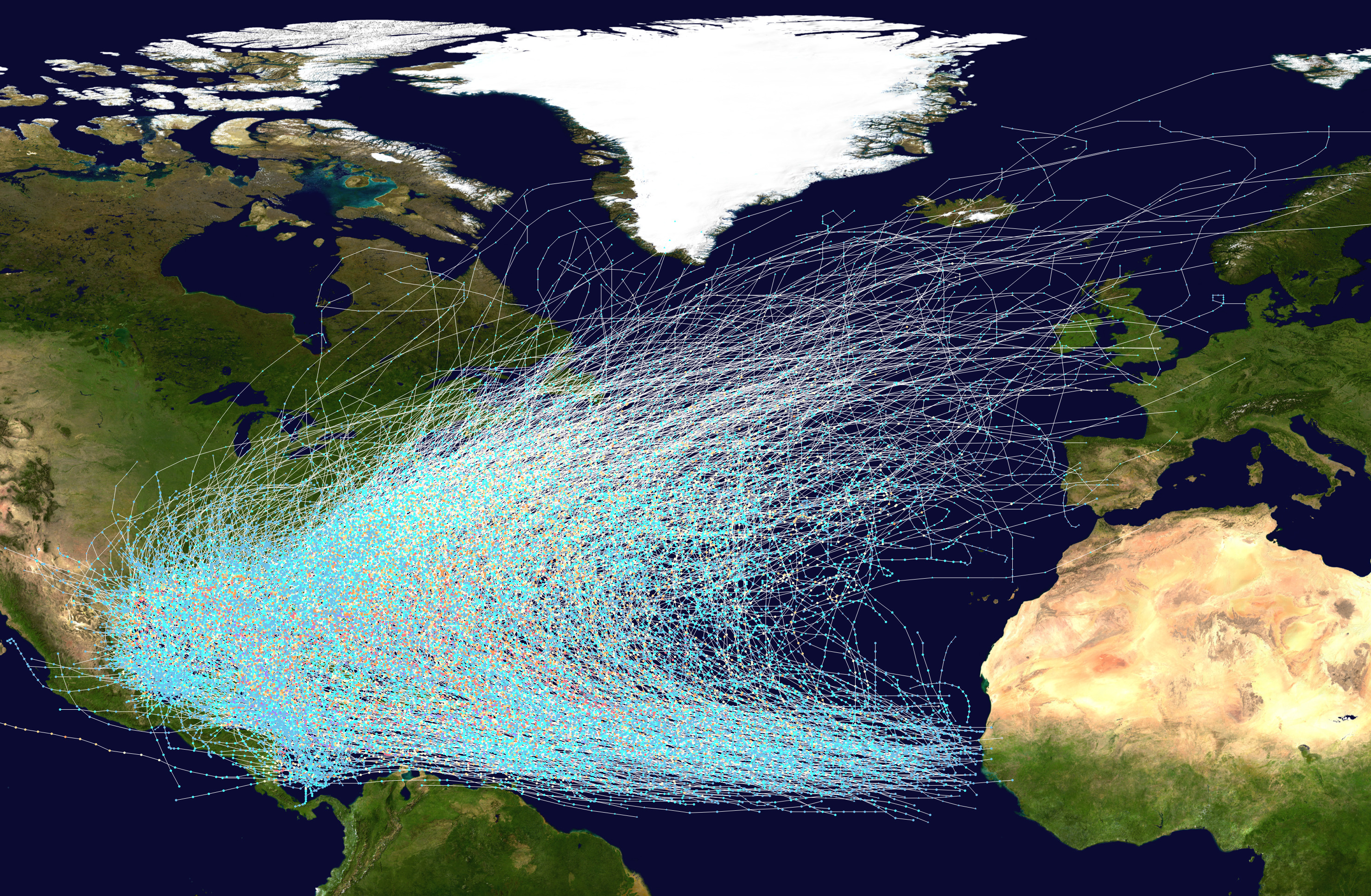 This map shows the tracks of all Atlantic hurricanes which formed between 1851 and 2012. The points show the locations of the storms at six-hourly intervals and use the color scheme shown to the right from Saffir-Simpson Hurricane Scale.